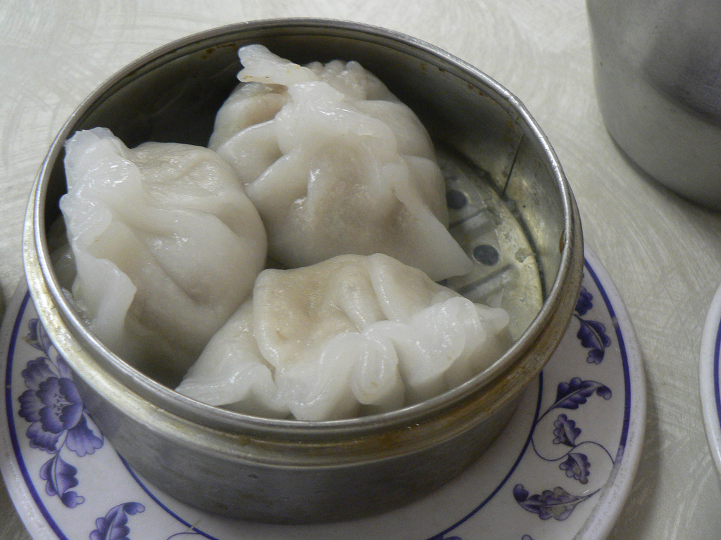 潮州zh:粉果, a kind of Chaozhou style dumplings.